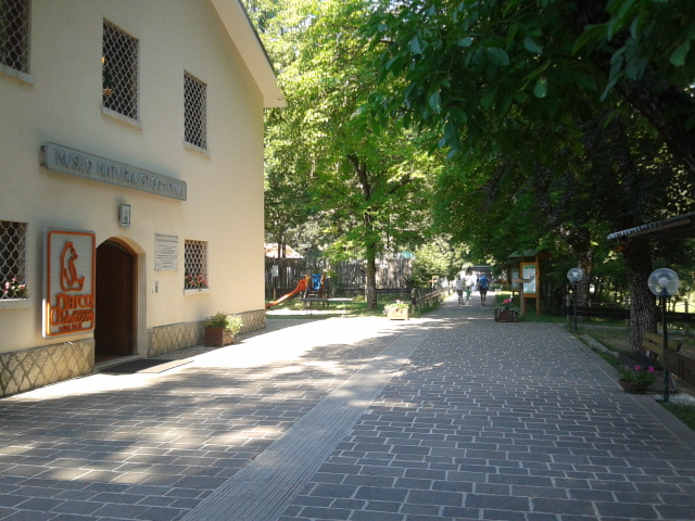 Natural museum and park visitor center, Pescasseroli, Abruzzo, Italy